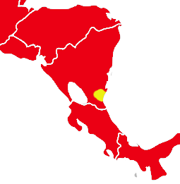 Distribution of the genus Oryzomys in Central America. Red: Oryzomys couesi yellow: Category:Oryzomys couesi and Oryzomys dimidiatus.